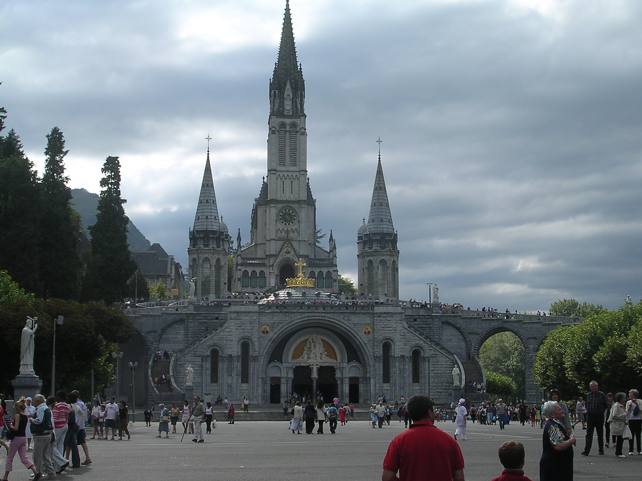 Lourdes, France